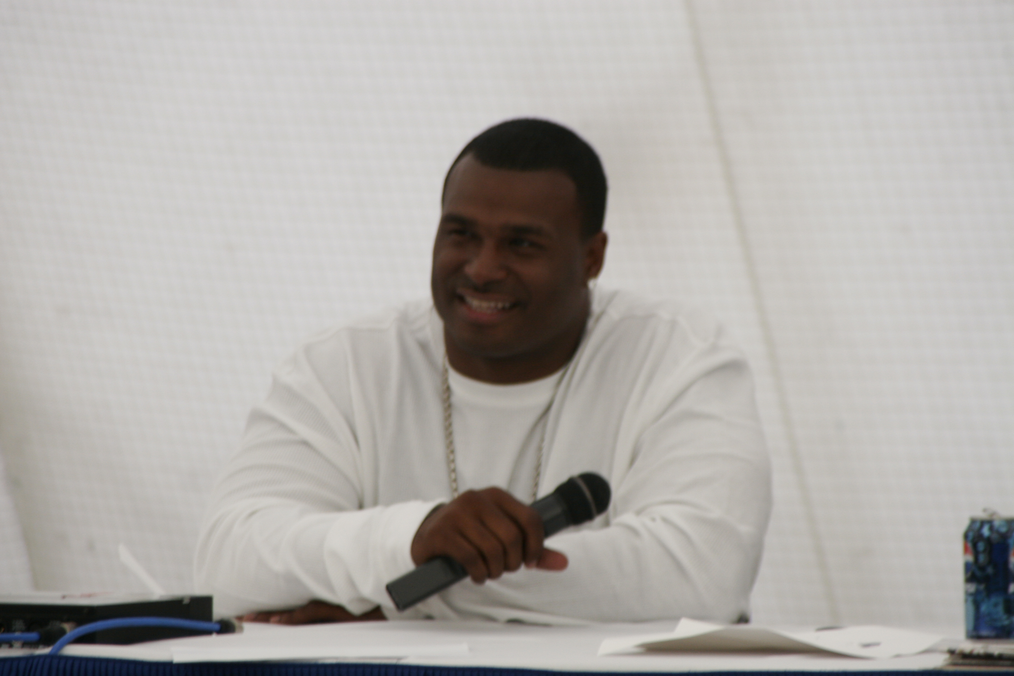 Jessie W. Armstead (born October 26, 1970 in Dallas, Texas) is a former National Football League linebacker who played for eleven seasons with the New York Giants and the Washington Redskins between 1993 and 2003. Armstead attended Carter High School in Dallas, Texas, before attending the University of Miami. When Armstead committed to Miami, Jimmy Johnson was the head coach. However, weeks later, Johnson left Miami to take over as the head coach of the Dallas Cowboys. After initial reports that Armstead might seek to be released from his commitment to Miami, since the coach who recruited him to play there had departed, Armstead chose to honor his commitment after Dennis Erickson was named head coach. A college standout, Armstead's pro prospects were diminished after he tore his anterior cruciate ligament his senior season. As a result, he was not drafted until the 8th round of the 1993 NFL Draft, when he was selected by the New York Giants. Armstead was a five time Pro Bowler, elected between 1997 and 2001. Armstead had 752 career tackles with forty sacks and 12 interceptions for 175 yards. Following an eight-year career with the Giants, he was signed by the Washington Redskins, where he played for two additional seasons. He signed with the Carolina Panthers for the 2004 season, but he retired that year following a pre-season injury